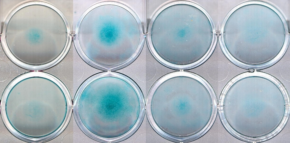 Alcian blue stained micromass cultures of C3H-10T1/2 cells at different oxygen tensions. by User:Cquan (2006)